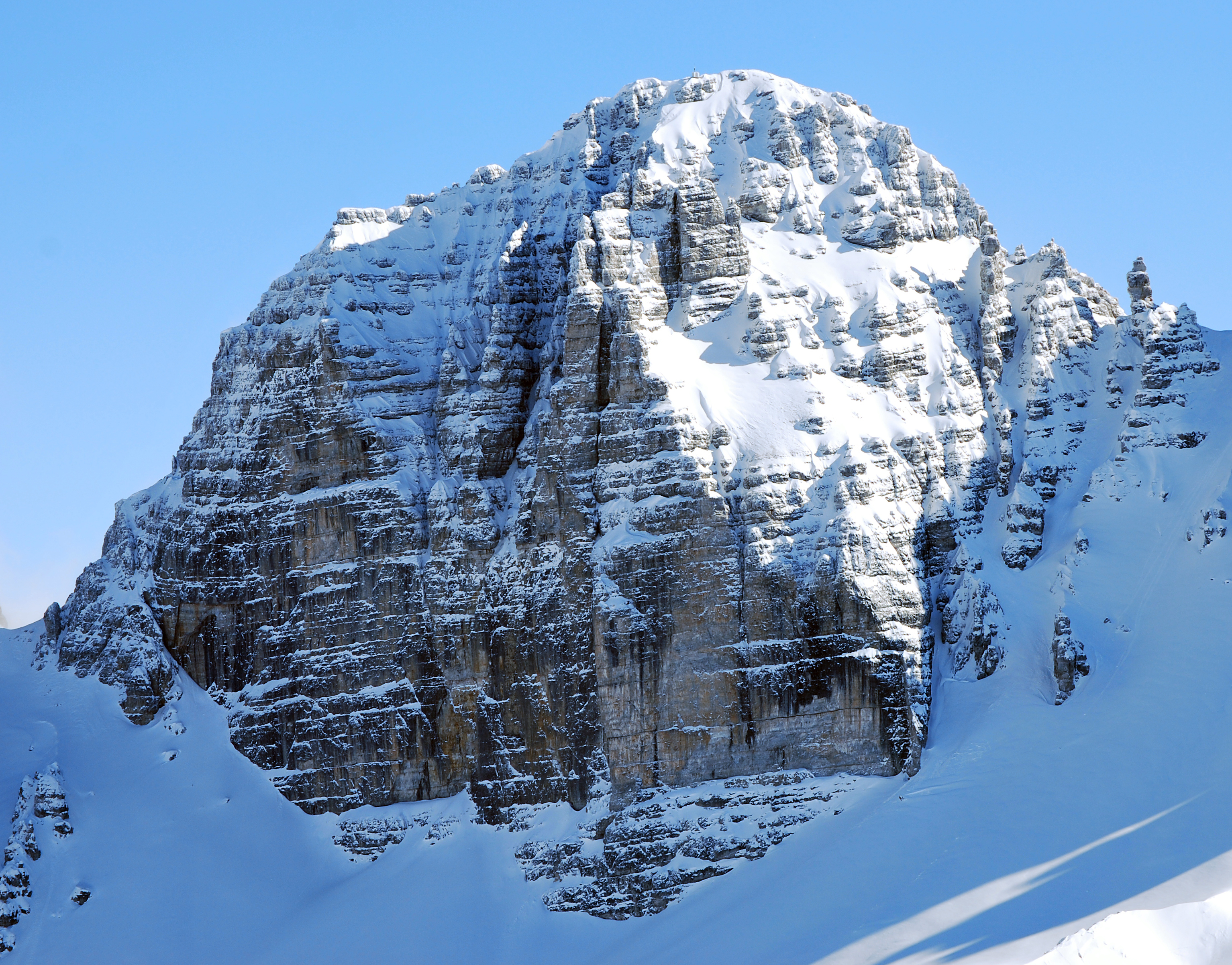 Riepenwand